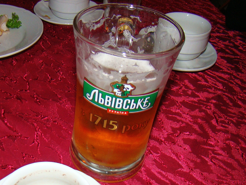 Lemberger (Lvivske) beer in Lviv.